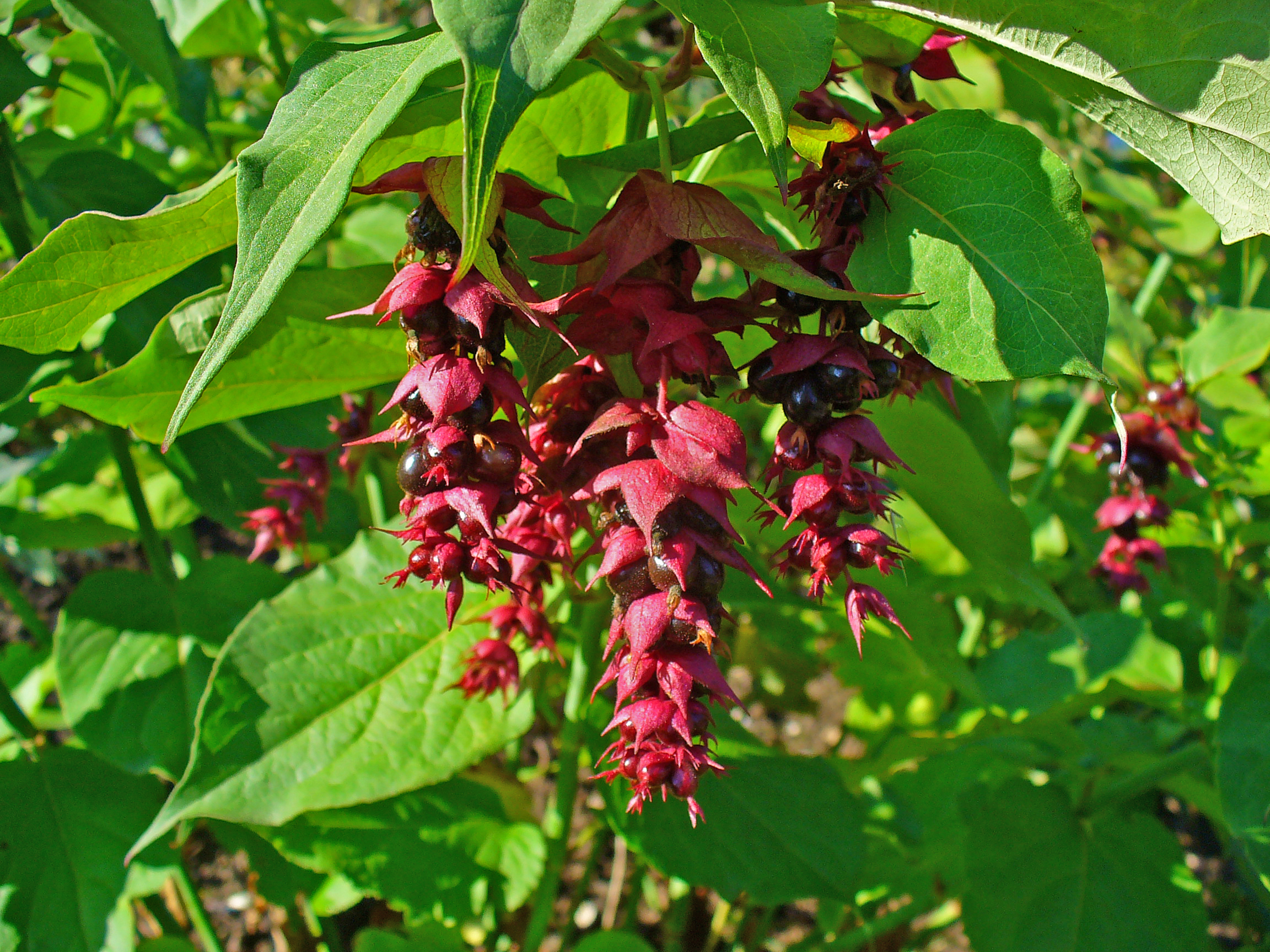 Leycesteria formosa, Caprifoliaceae, False Nutmeg, infrutescences; Botanic Garden Universiy Tübingen, Germany. The aerial parts of the flowering plant are used in homeopathy as remedy: Leycesteria formosa (Leyc-f.)